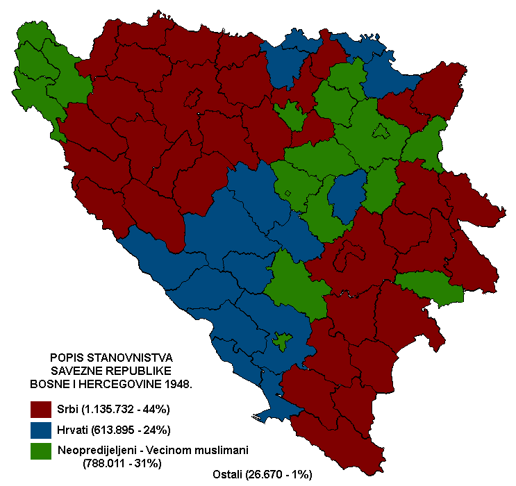 Map of the 1948. Population Census conducted in SR Bosnia and Herzegovina. Serbs are colored in red, Croats in blue, Ethnically undeclared (Mostly muslims) in green. The map uses municipality borders from 1953. Srpski (latinica): Karta iz 1948. Popisa stanovnistva koji je sproveden u SR Bosni i Hercegovini. Srbi su u crvenoj boji, Hrvati u plavoj, Neopredijeljeni (Vecinom muslimani) u zelenoj. Mapa koristi granice opština iz 1953.